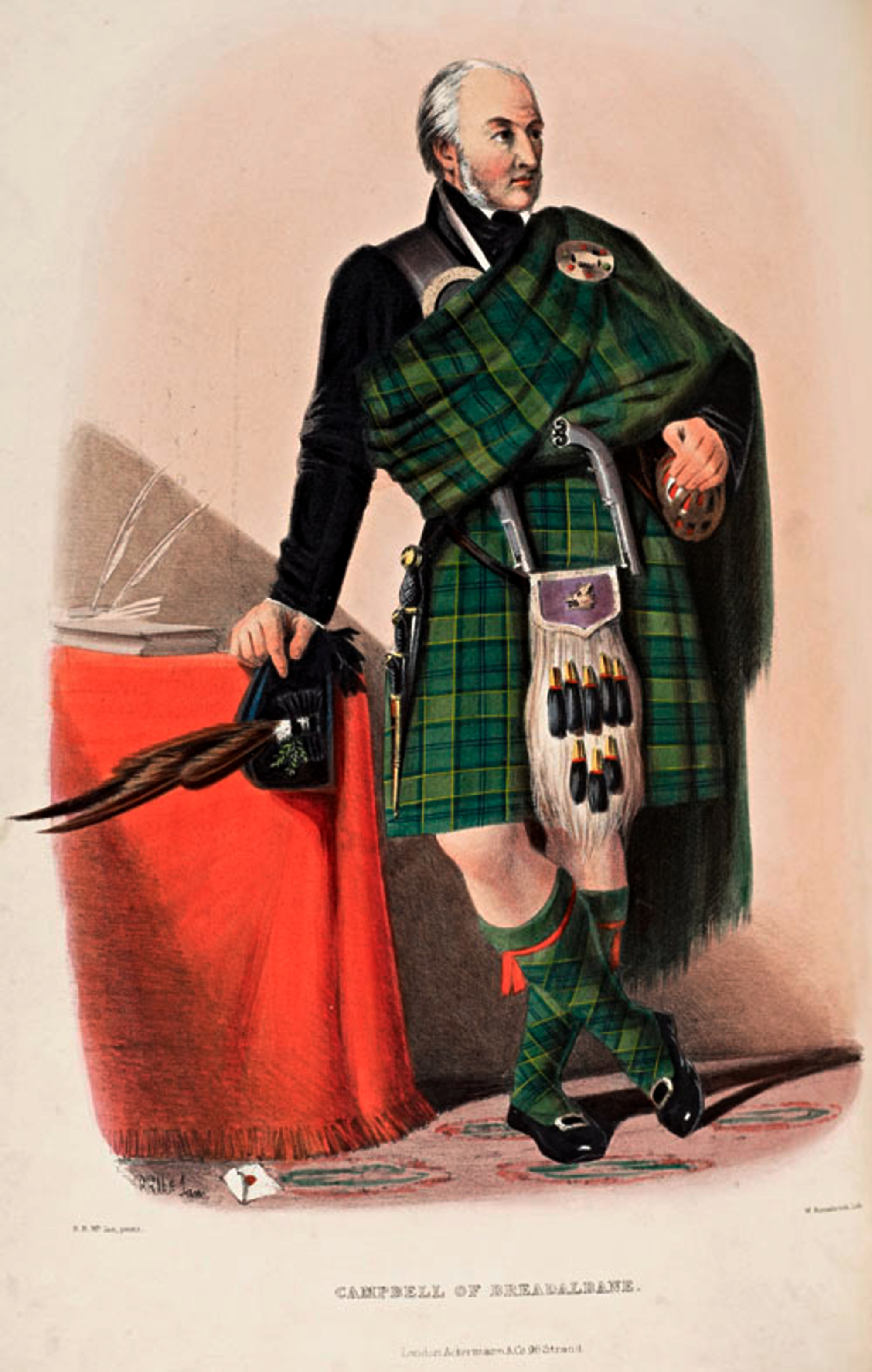 A lithograph of a member of the Scottish Highland clan of Campbell, by R. R. McIan and published by Dickinson circa 1845-47.